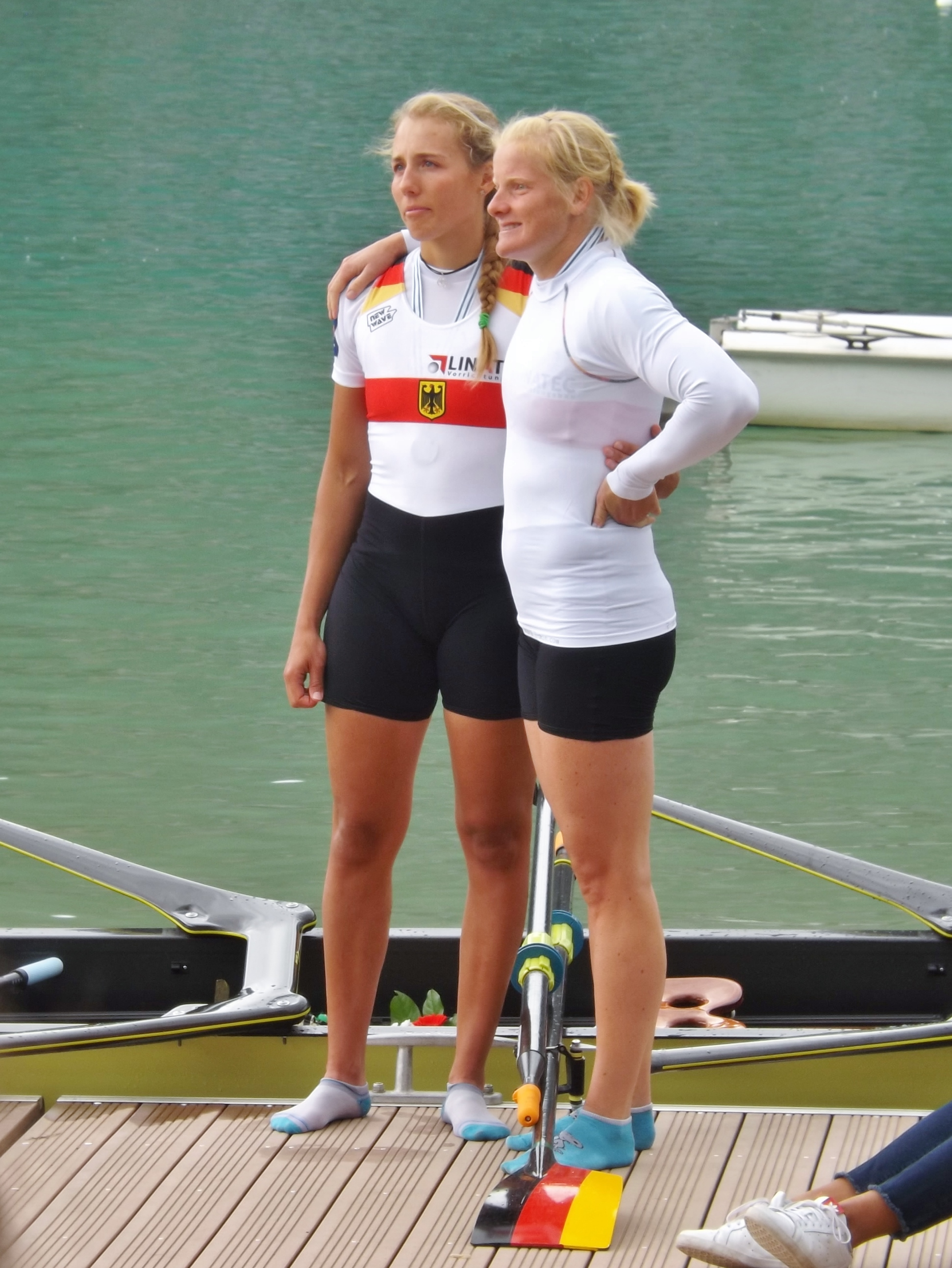 Sight of German athletes Marie-Catherine Arnold and Annekatrin Thiele, during the play of the German national anthem in dedication to the German men team who reached a gold medal, during the 2015 World Rowing Championships taking place on the lac d'Aiguebelette lake, in Savoie, France.